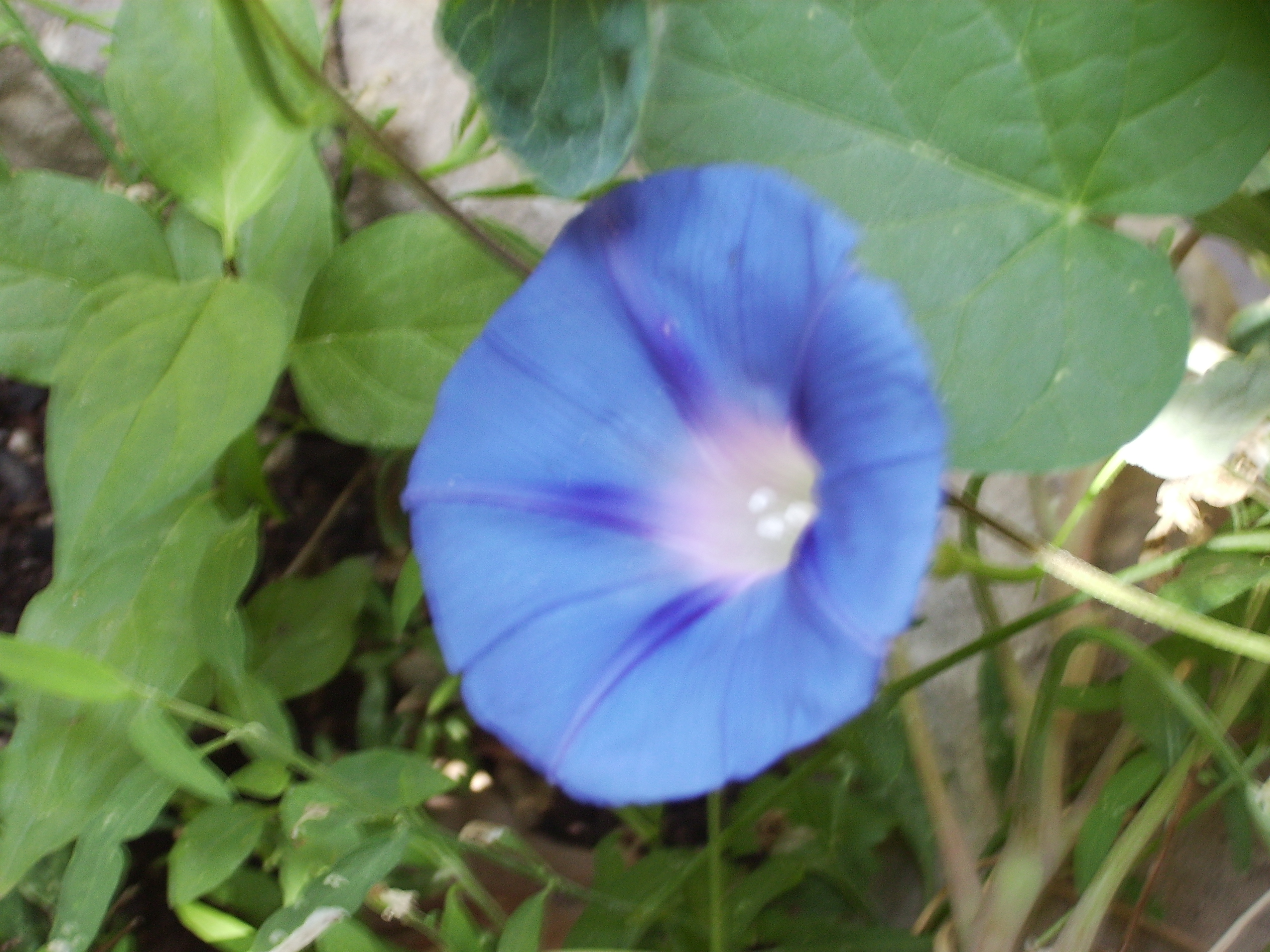 Image:Flor_ipomea_8_agost06_061.jpg My own work, Castelltallat